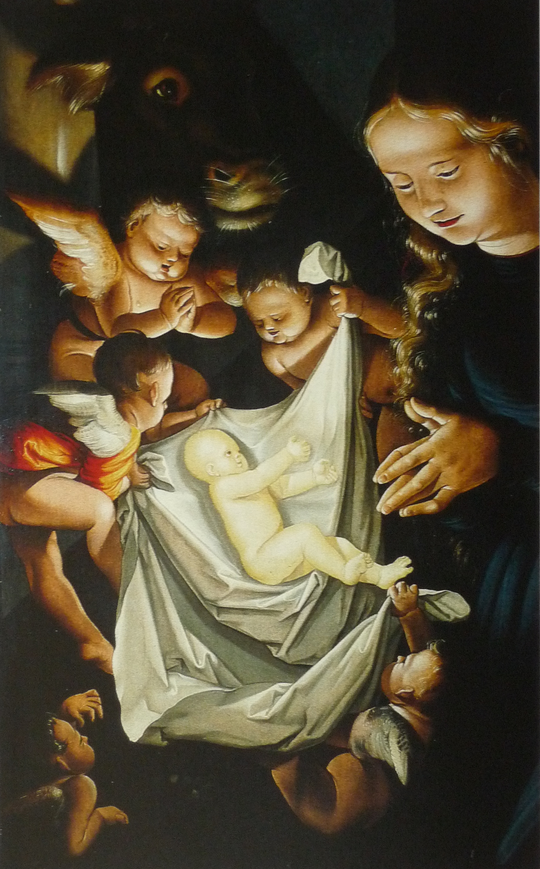 Hans Baldung: Nativity; Freiburg Minster, altar